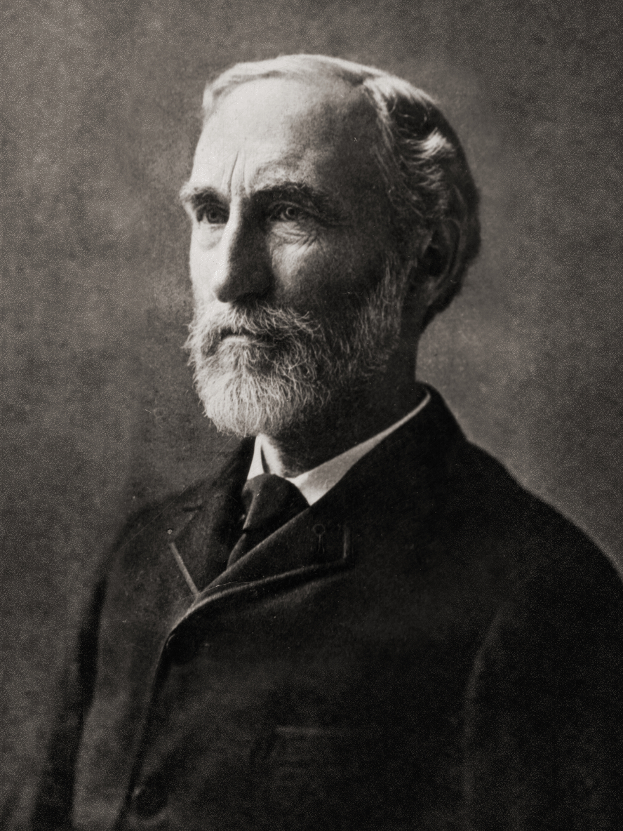 J. W. Gibbs